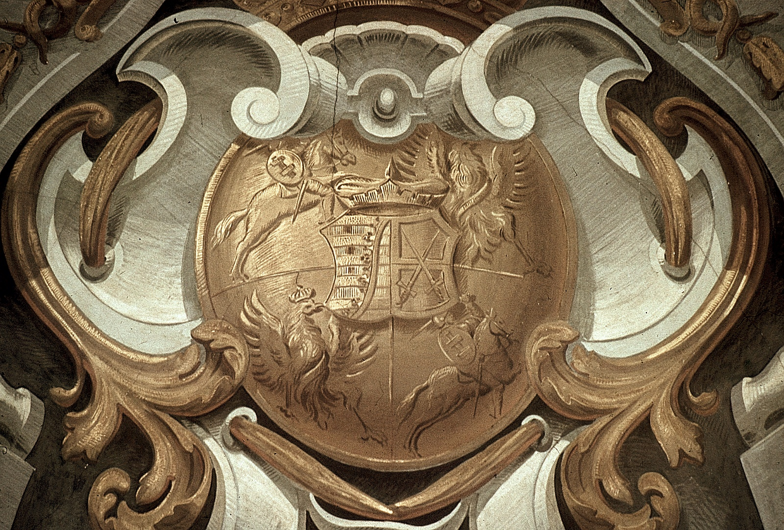 l